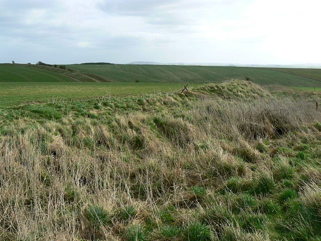 Casterley Camp, near Upavon